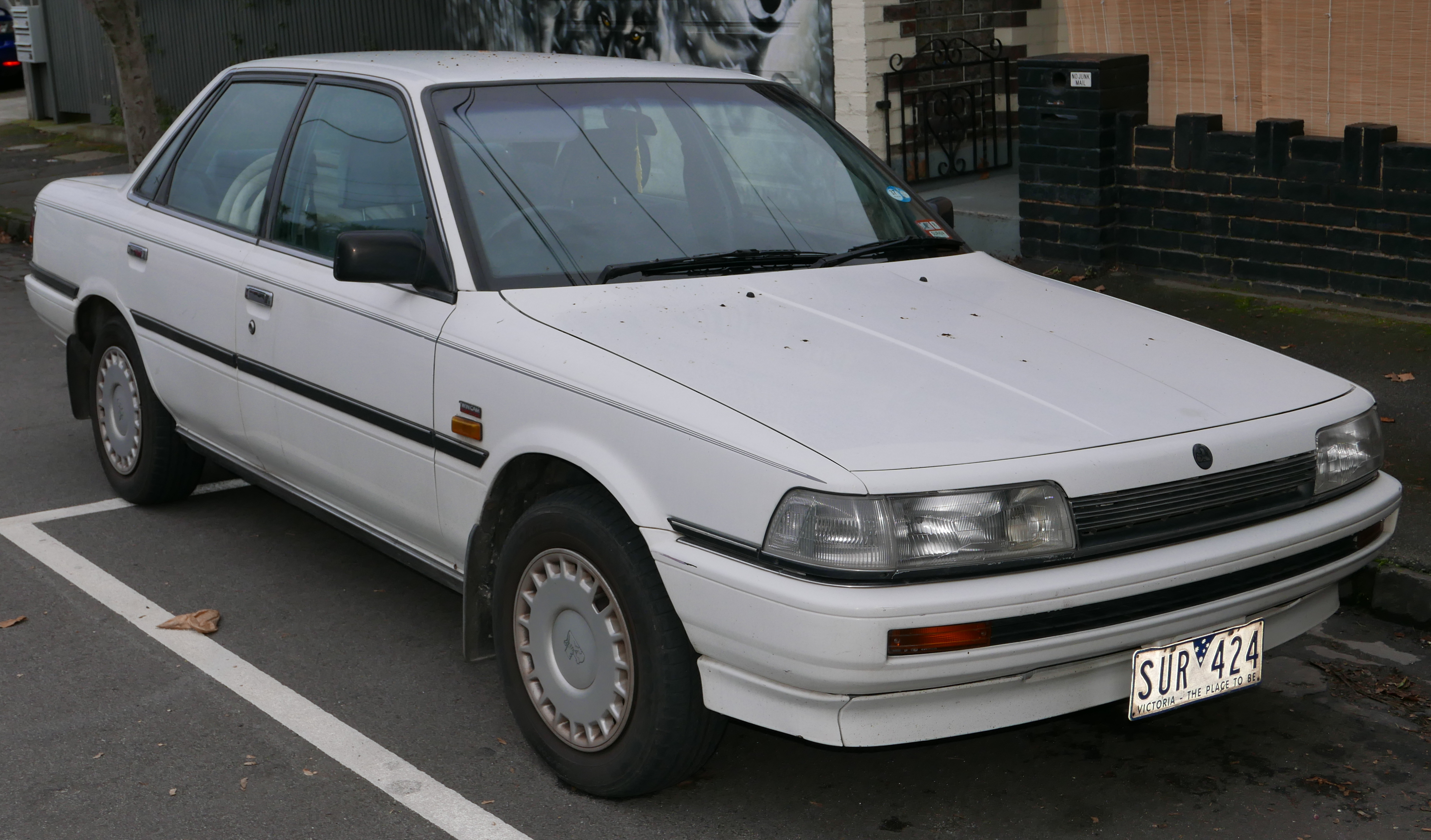 1989 Holden Apollo (JK) SLE sedan. Photographed in Collingwood, Victoria, Australia. Vehicle registration enquiry results Jurisdiction Victoria Registration SUR424 Chassis code 6T153SG2109800104 Engine code 358066670 Compliance date 1989-08 Year of manufacture 1989